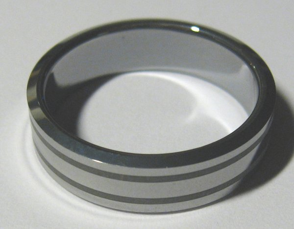 Ring made of tungsten (tungstencarbide?)